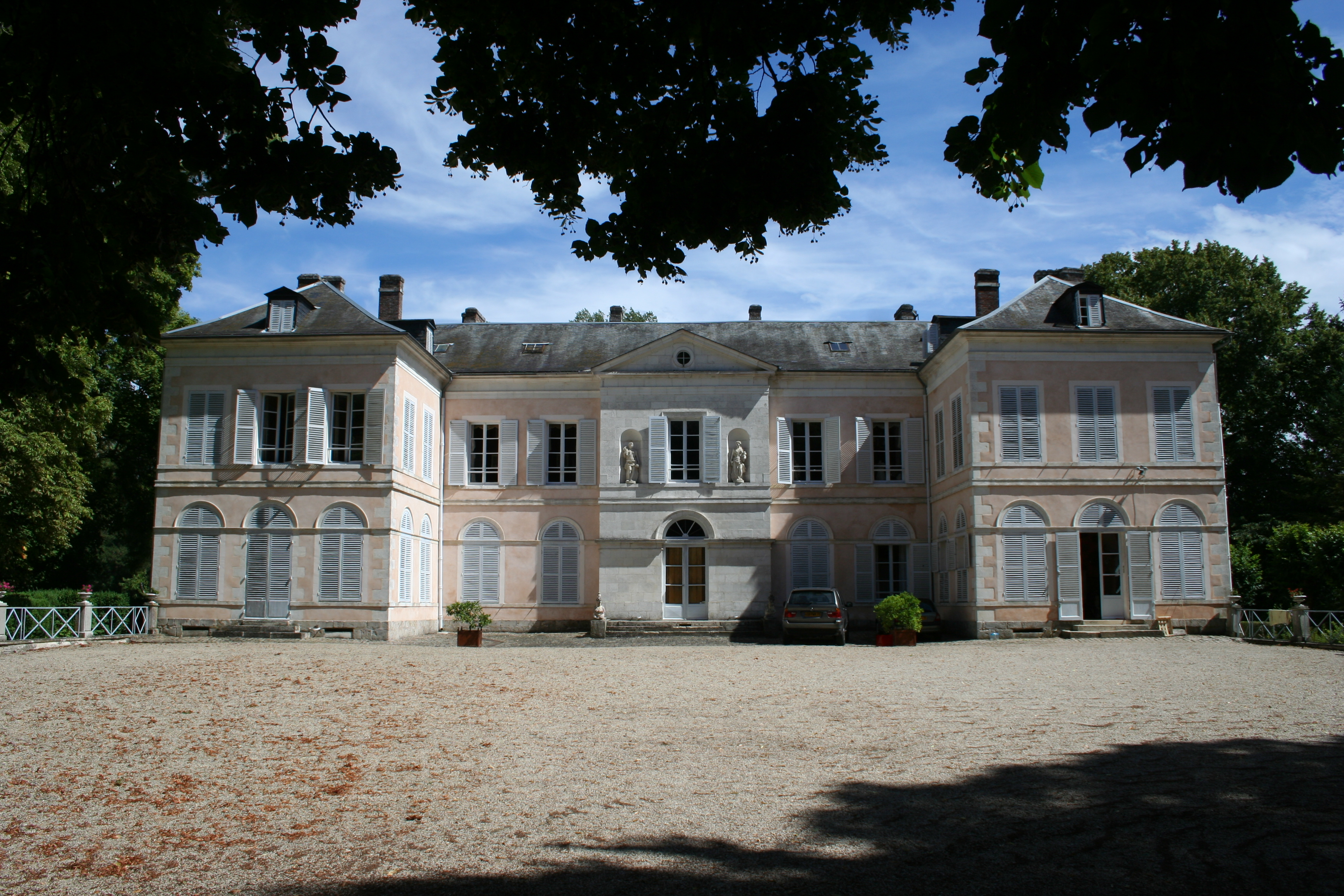 castle of Précy-sur-Vrin (Yonne, France)